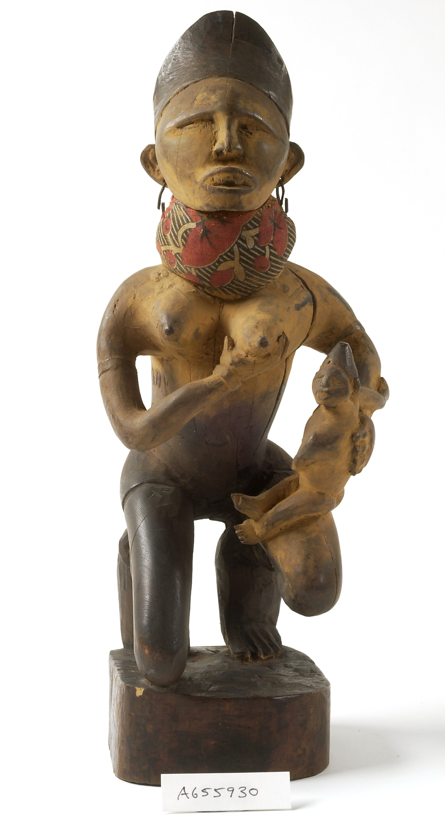 Carved wooden figurine of kneeling woman holding a small child on one knee, other hand clutching her left breast. She wears a padded cloth neckband. From the Mayombo people of the Democratic Republic of Congo. Wellcome Images